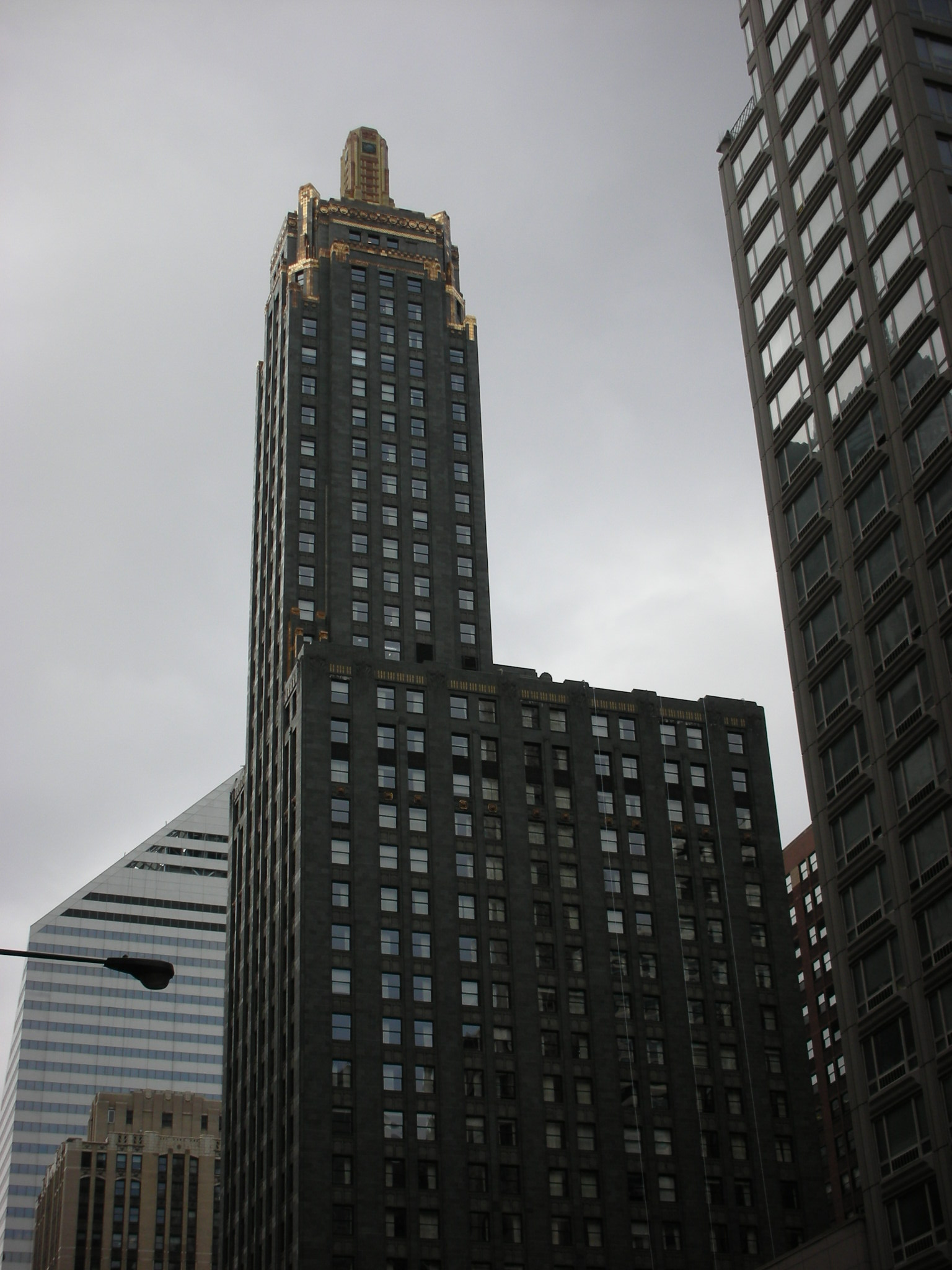 Carbide and Carbon Building. 1929. By the Burnham Brothers. 230 N. Michigan Ave (Loop)